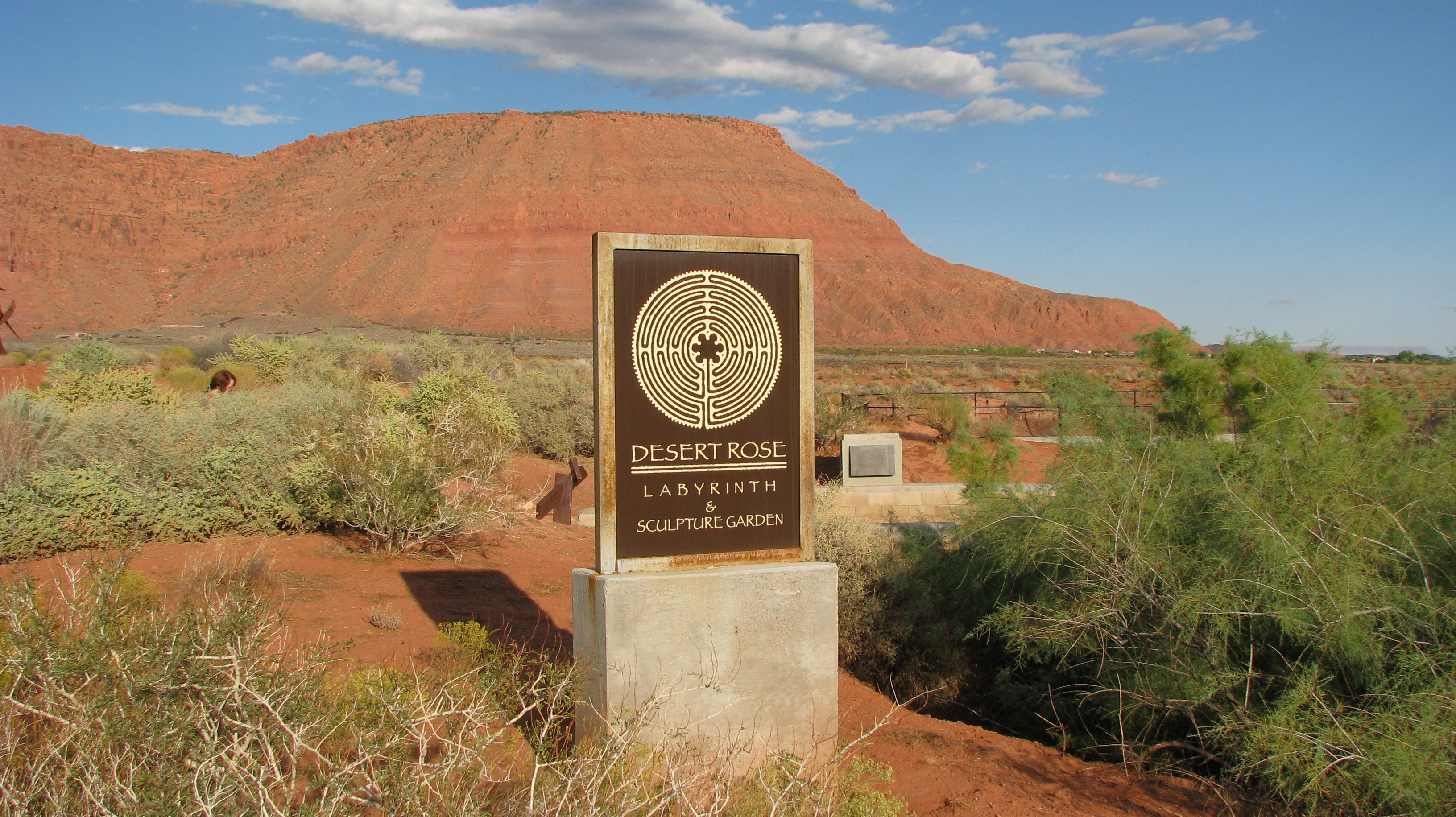 The Desert Rose labyrinth - sign/marker - Ivins Utah